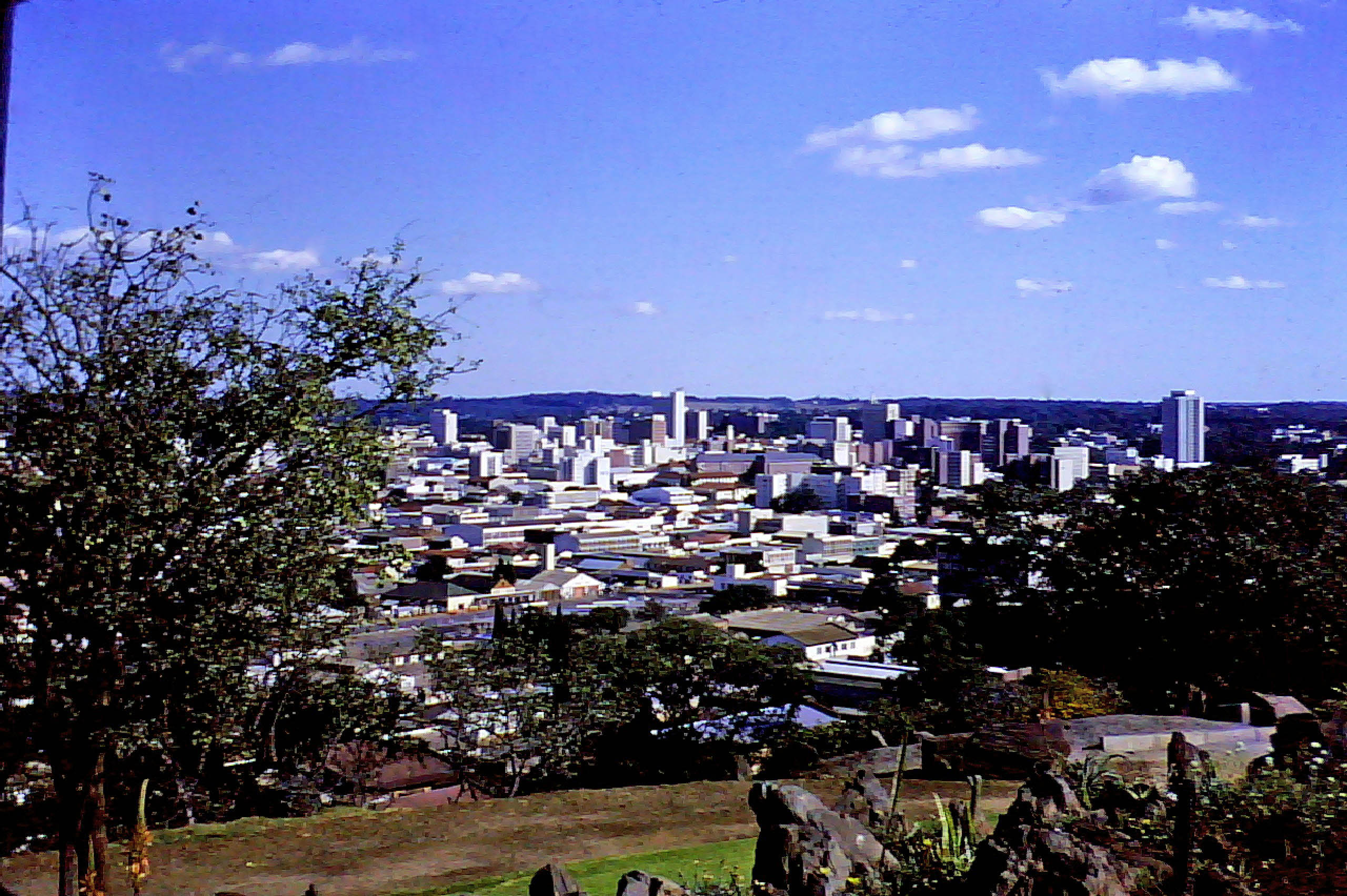 View from the top of the Kopje in Salisbury (now Harare, Zimbabwe) circa 1975.